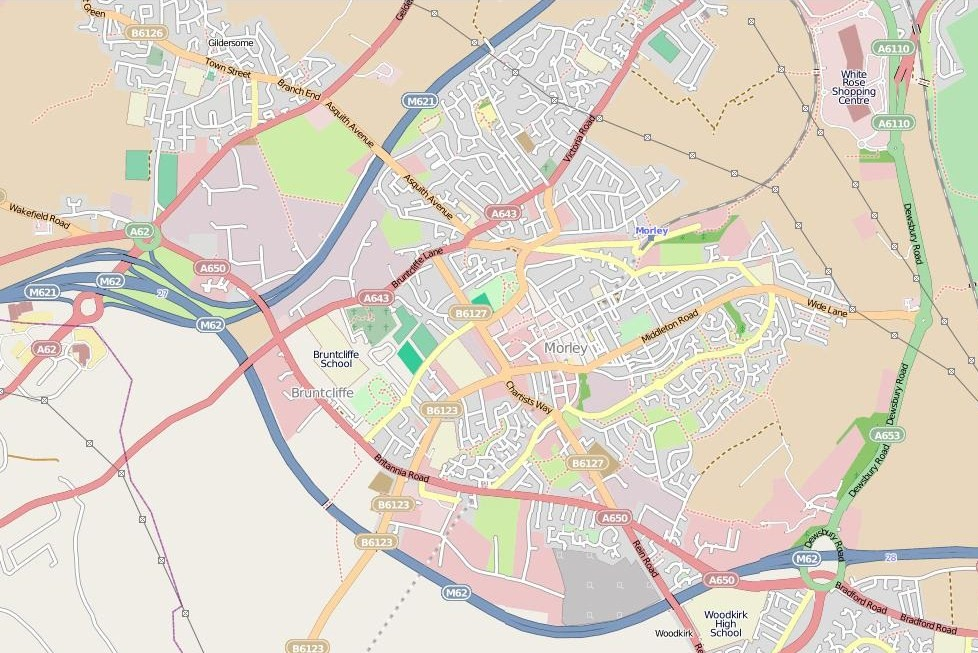 A street map of Morley, Leeds. Copied from open street map on the 29/09/2009.